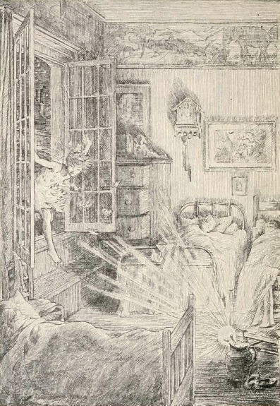 pg 8 ofPeter and Wendy